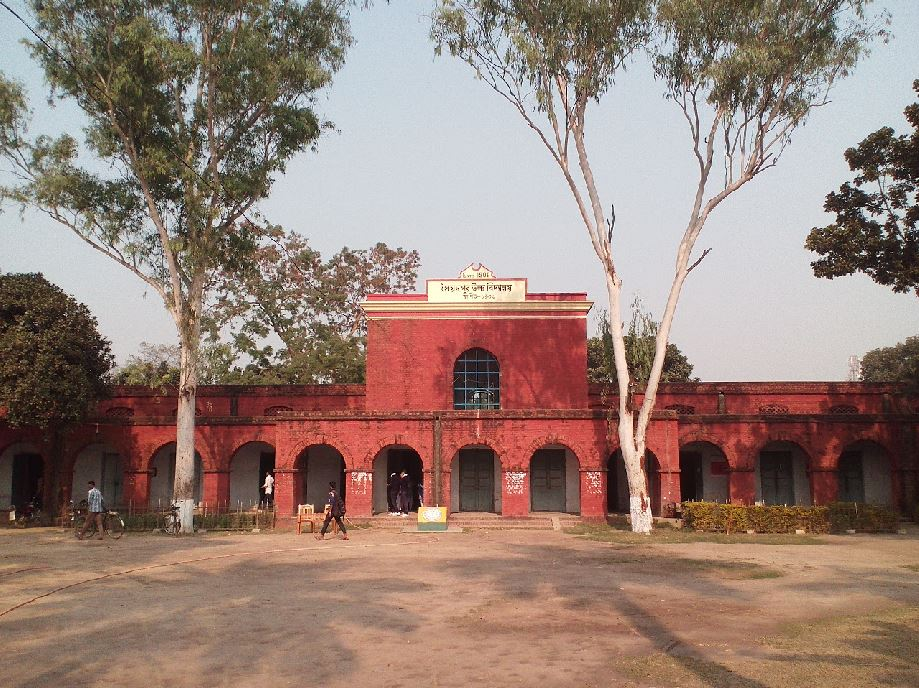 Saidpur high school's images